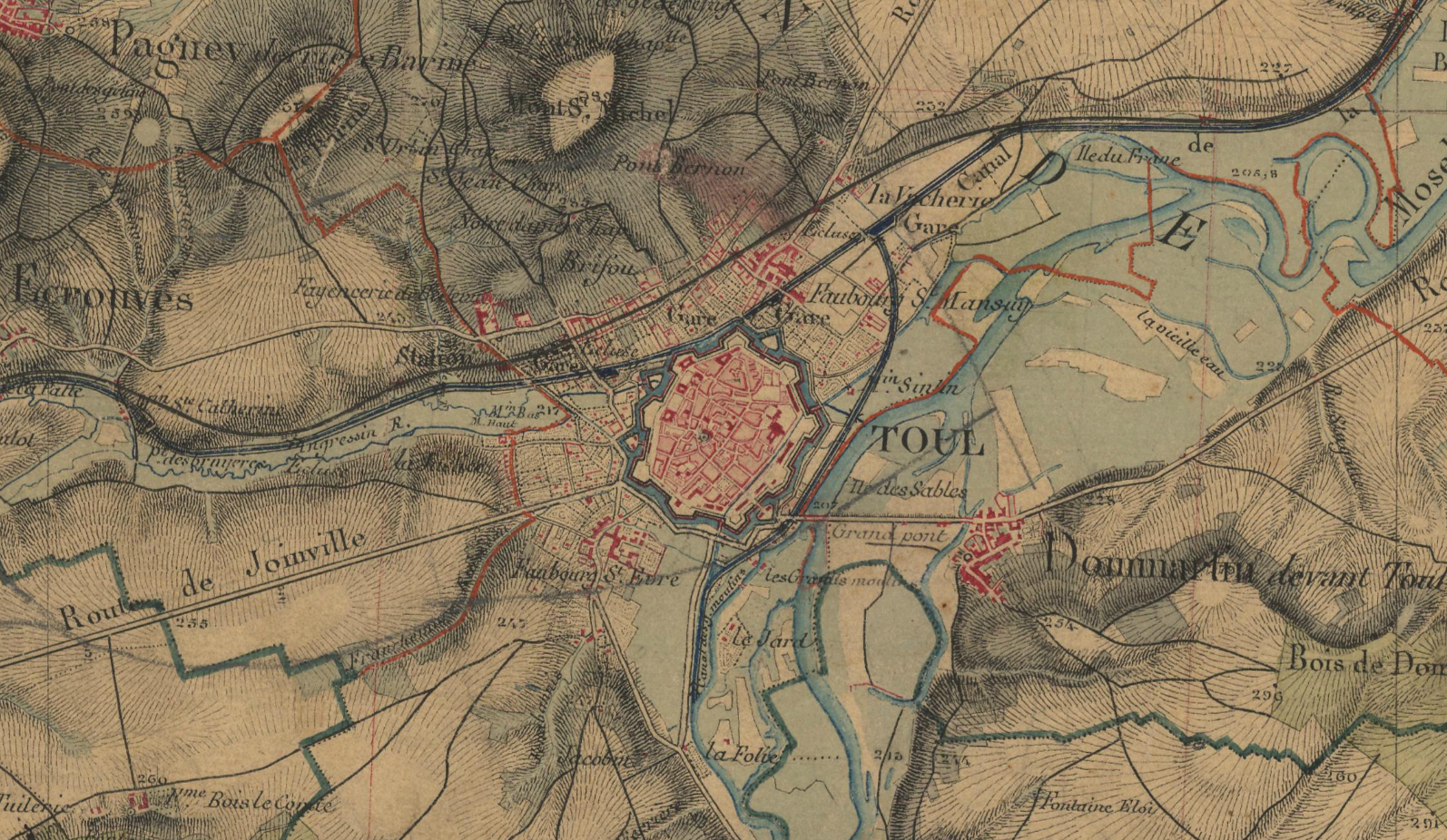 Map of Toul, France, 1866